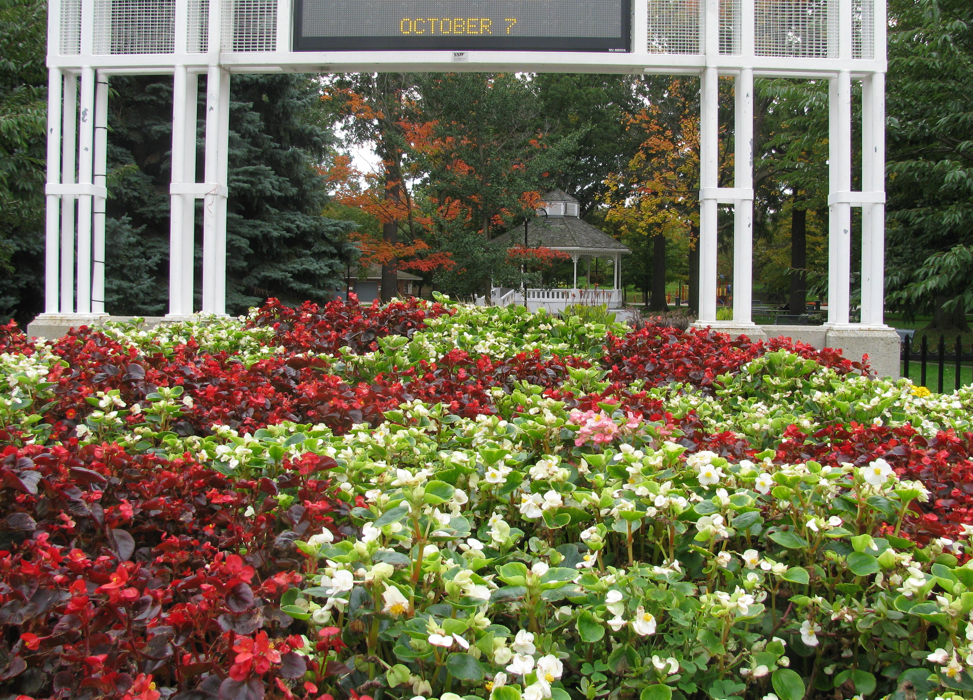 Gage Park Fall Colours